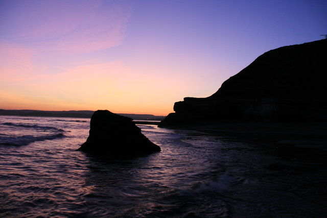 Orcombe Point The farthest west extremity of Sandy Bay, not long after sunset. The lights of Dawlish, the Warren and Exmouth can be seen in the distance.